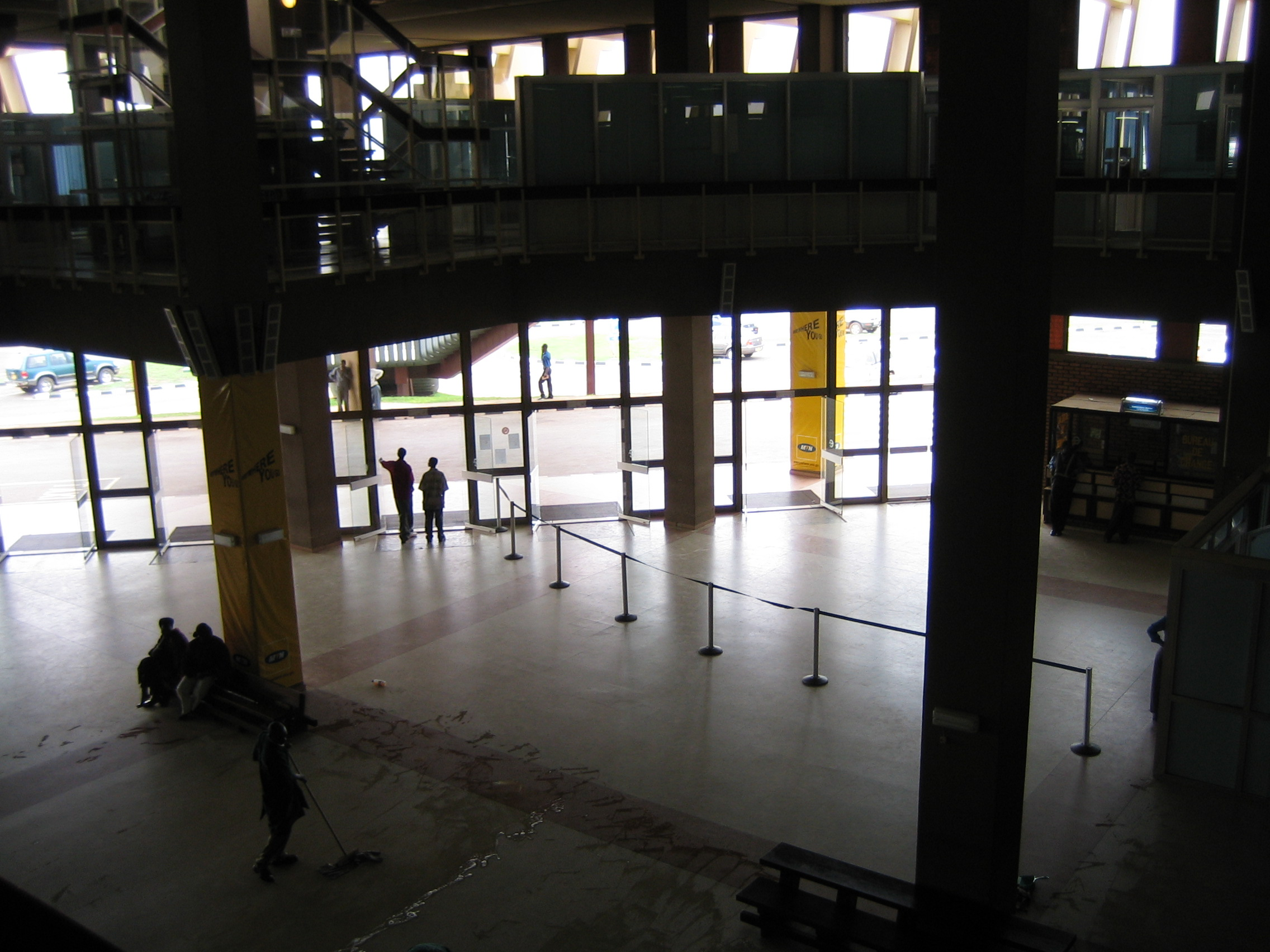 Inside the main terminal of Kigali International Airport Taken by SteveRwanda